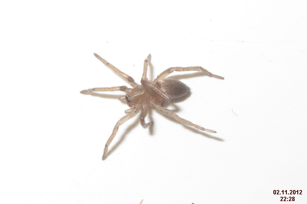 A very tiny version of perh. Scotophaeus blackwalli, found wandering along a window sill.